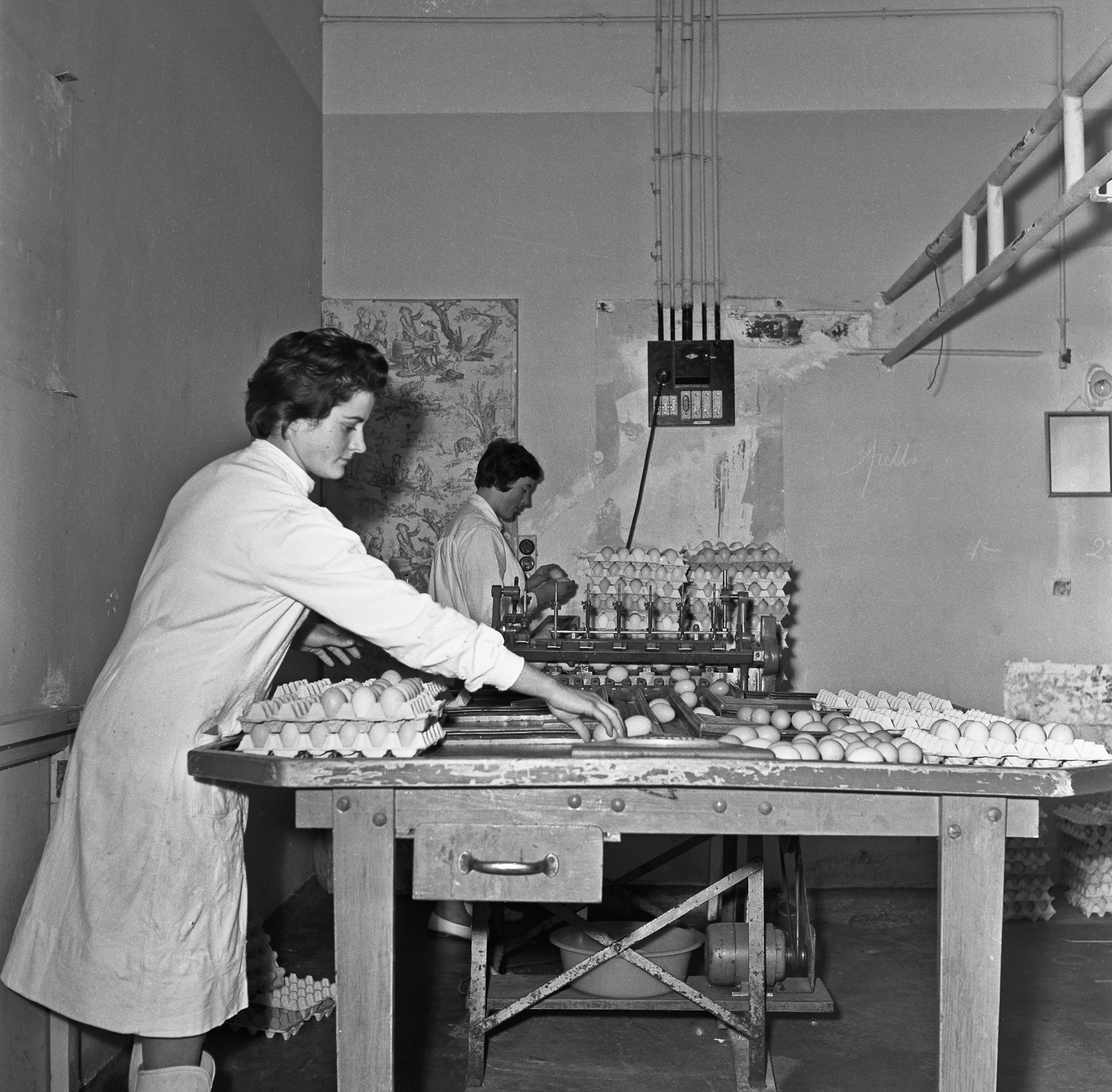 Station Avicole au CNRZ